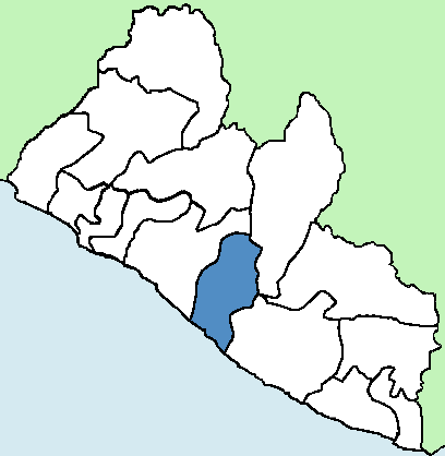 Map showing location of River Cess County in Liberia